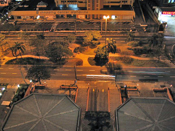 View on Rio Negro Avenue at night in Alphaville, Greater São Paulo, Brazil.